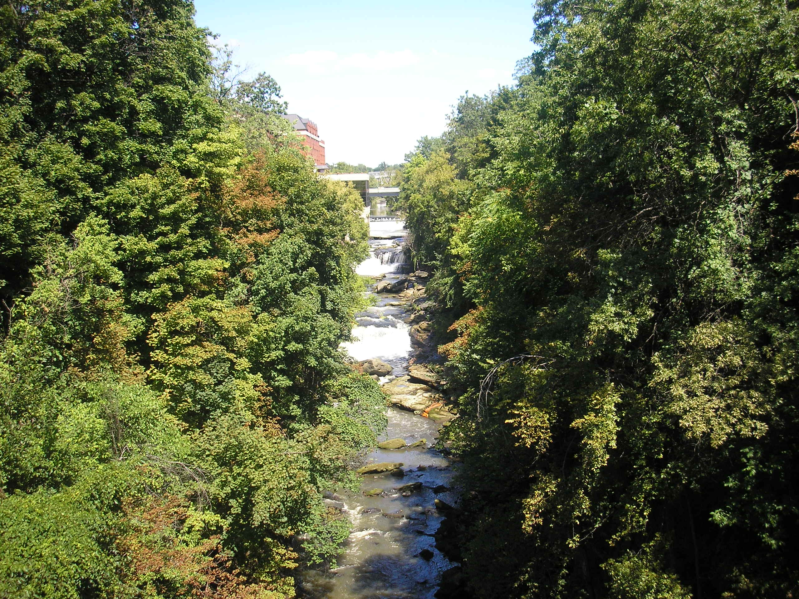 Gorge in High Bridge Glens, Cuyahoga Falls, Ohio, United States.